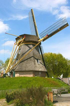 Recent picture (2005) This is my own picture, taken back in 2005.